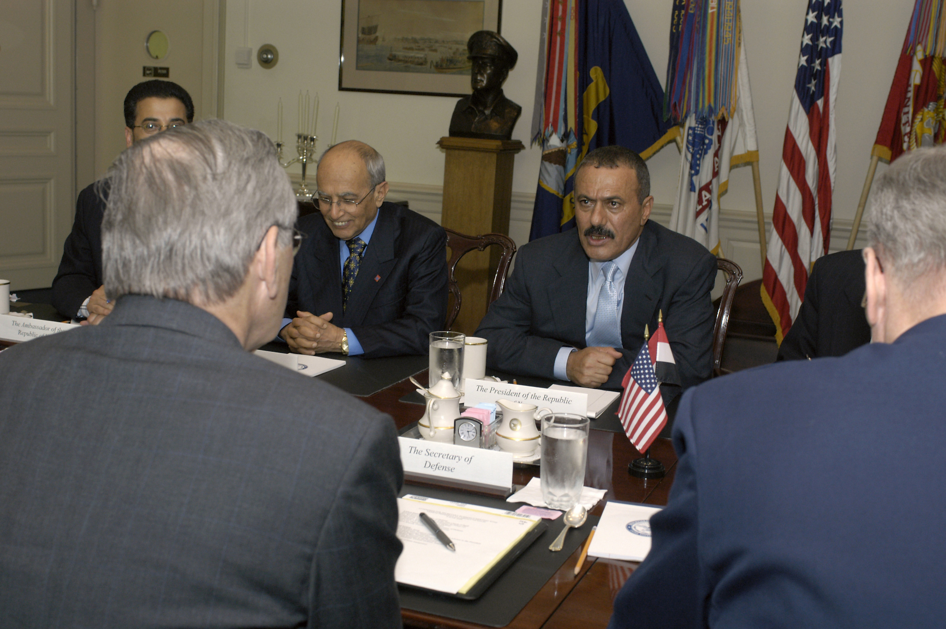 President Ali Abdallah Salih (center), of the Republic of Yemen, and his delegation meet with Secretary of Defense Donald H. Rumsfeld and his staff at the Pentagon on June 8, 2004. The two leaders are meeting to discuss defense issues of mutual interest. DoD photo by Helene C. Stikkel.